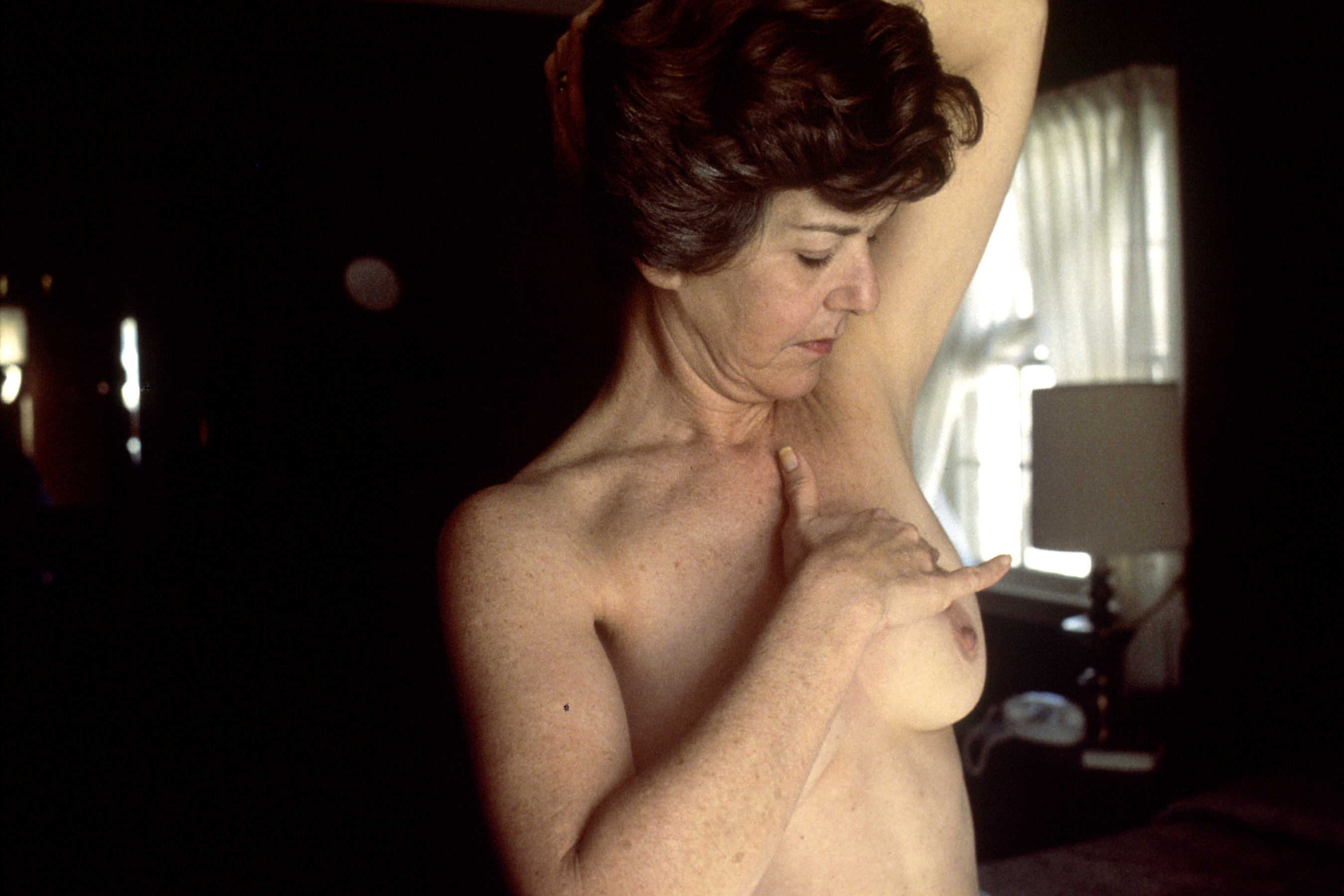 Title Breast Self-Exam Description Adult Caucasian woman is performing breast self-examination (BSE). The woman is nude from the waist up. Her left arm is raised above her head and she is examining her left breast with right hand. Topics/Categories People -- Adult Test or Procedure -- Physical Exam Type Color, Photo Source National Cancer Institute